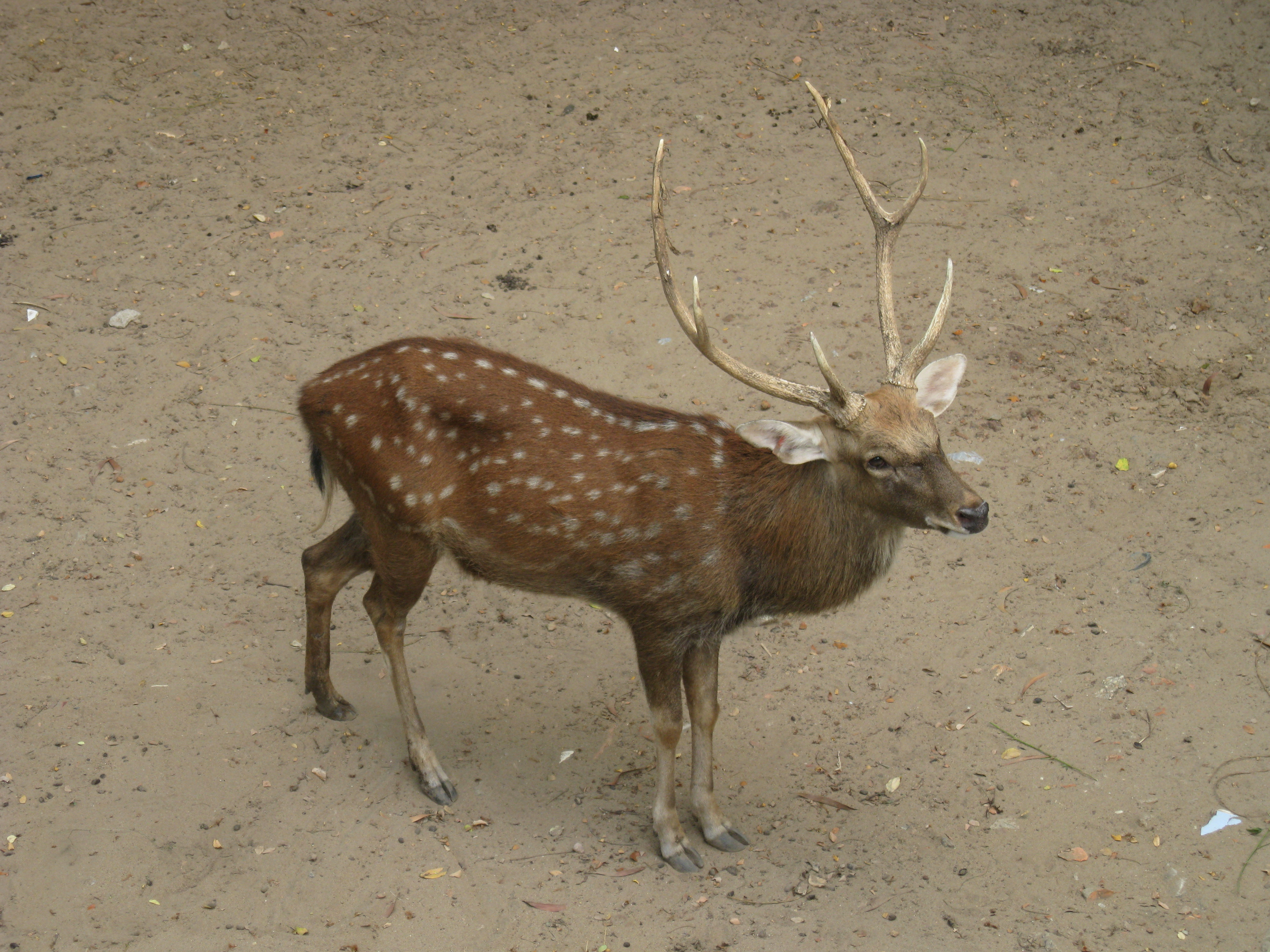 Cervus nippon pseudaxis, Saigon Zoo and Botanical Gardens.